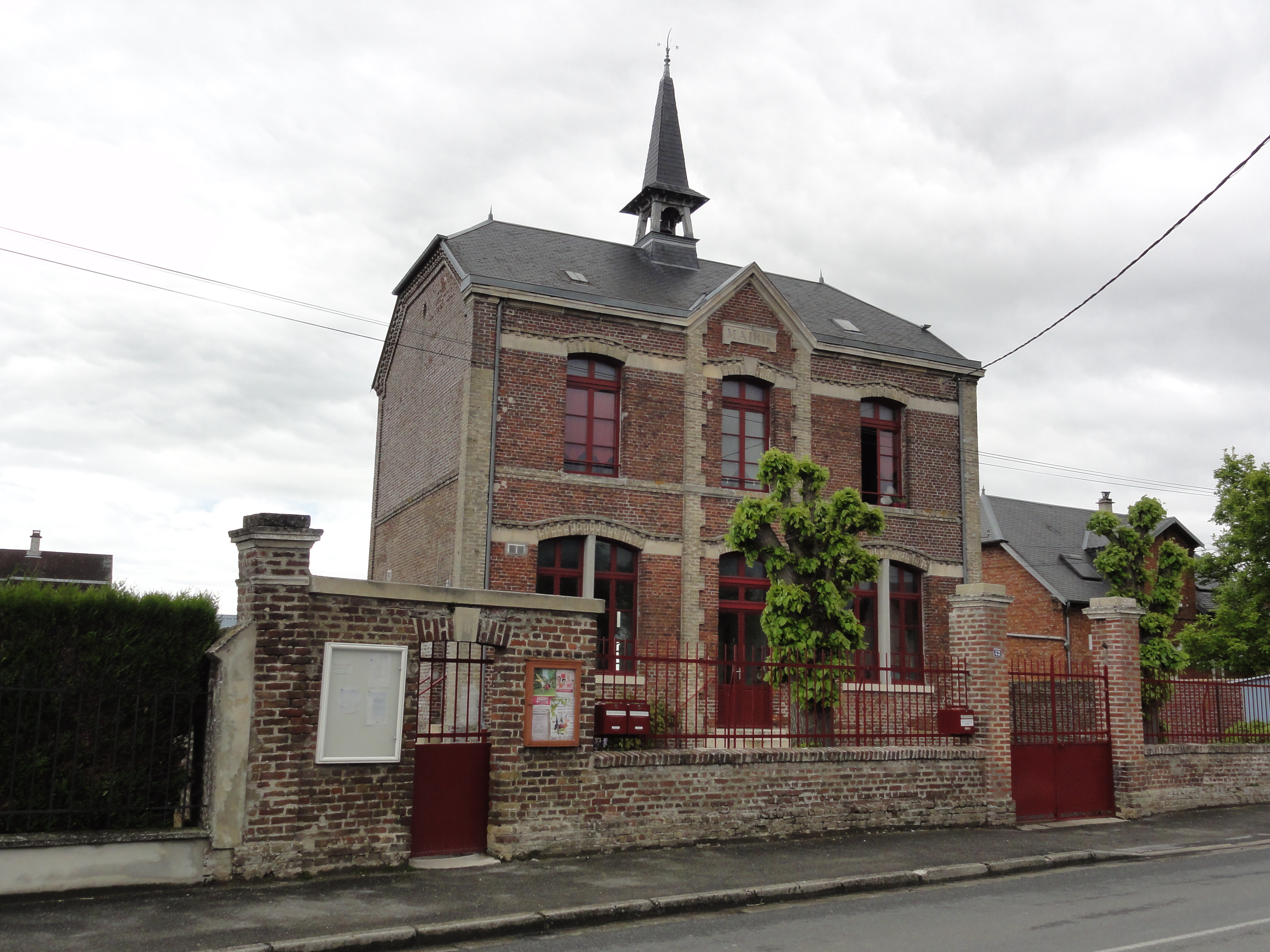 Andelain (Aisne) mairie